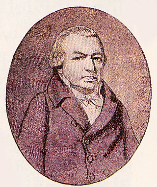 Johann van Beethoven